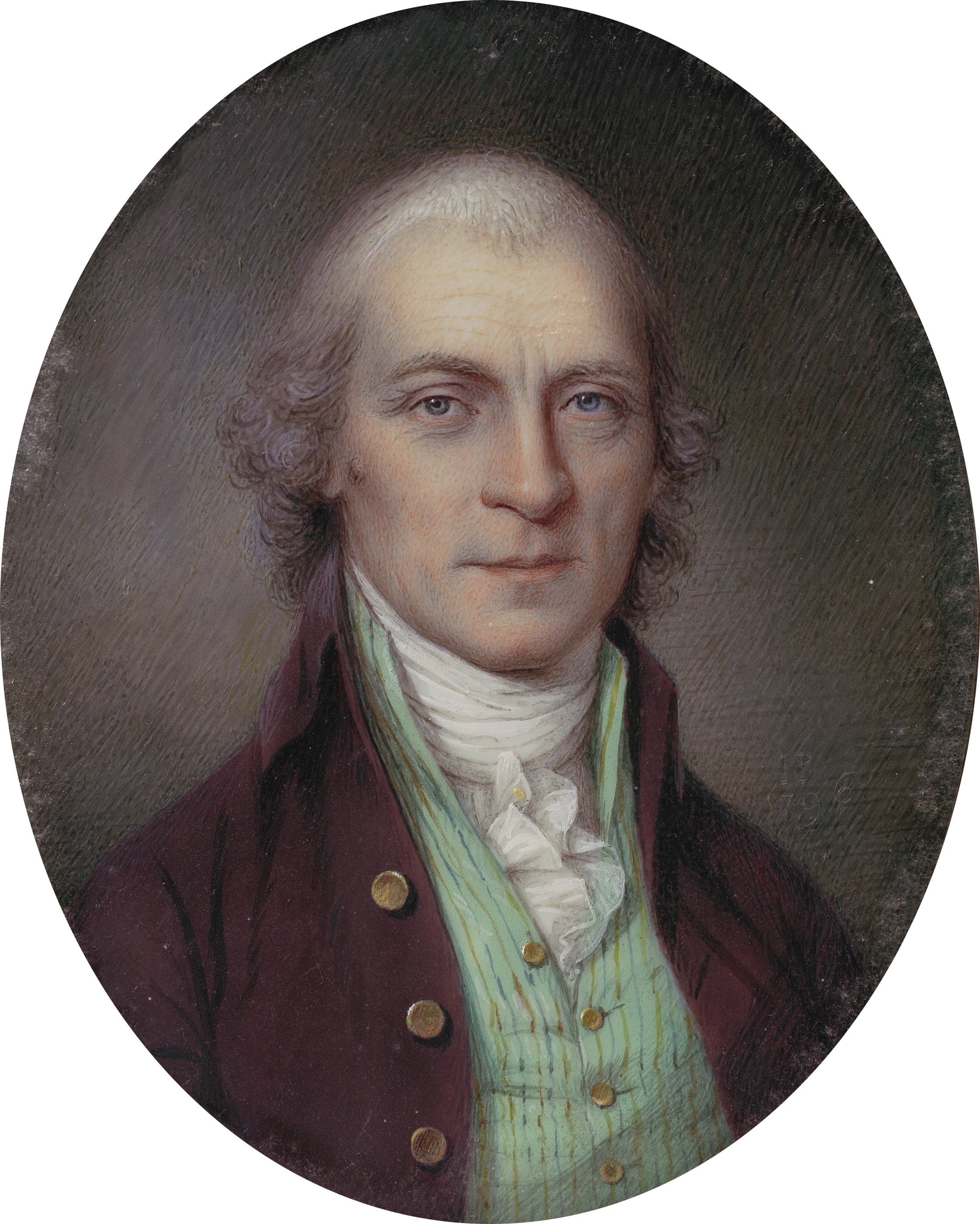 Portrait of Colonel Richard Thomas (1744–1832) in 1796, when this gentlemen of the distinguished West Chester, Pennsylvania, family was a state senator and a member of the fifth Congress.